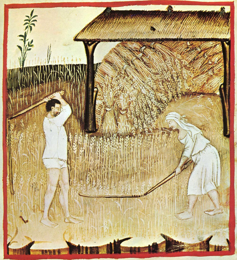 Tacuina sanitatis (14th century)